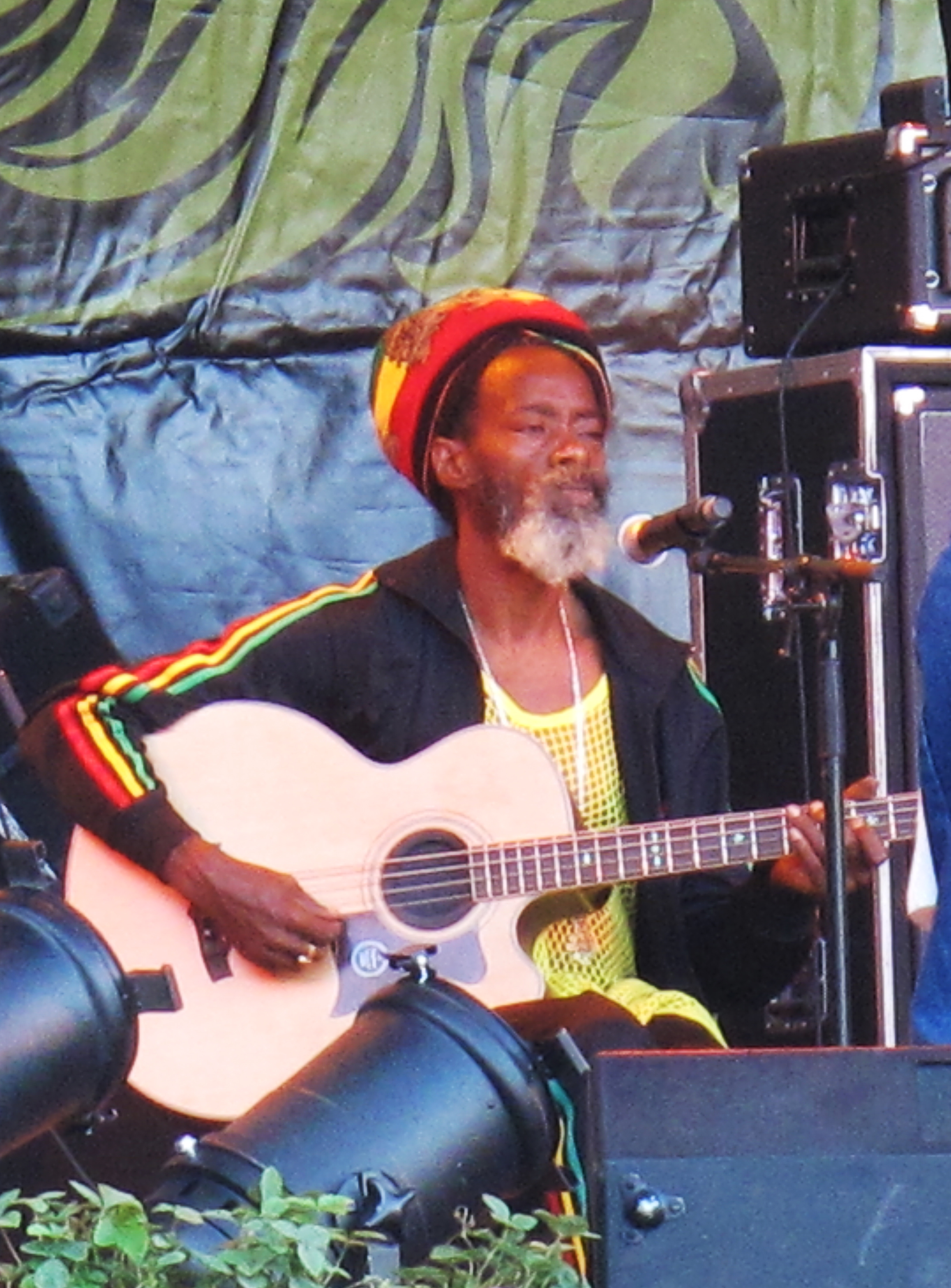 Inna Yard Allstars @ Uppsala Reggae Festival